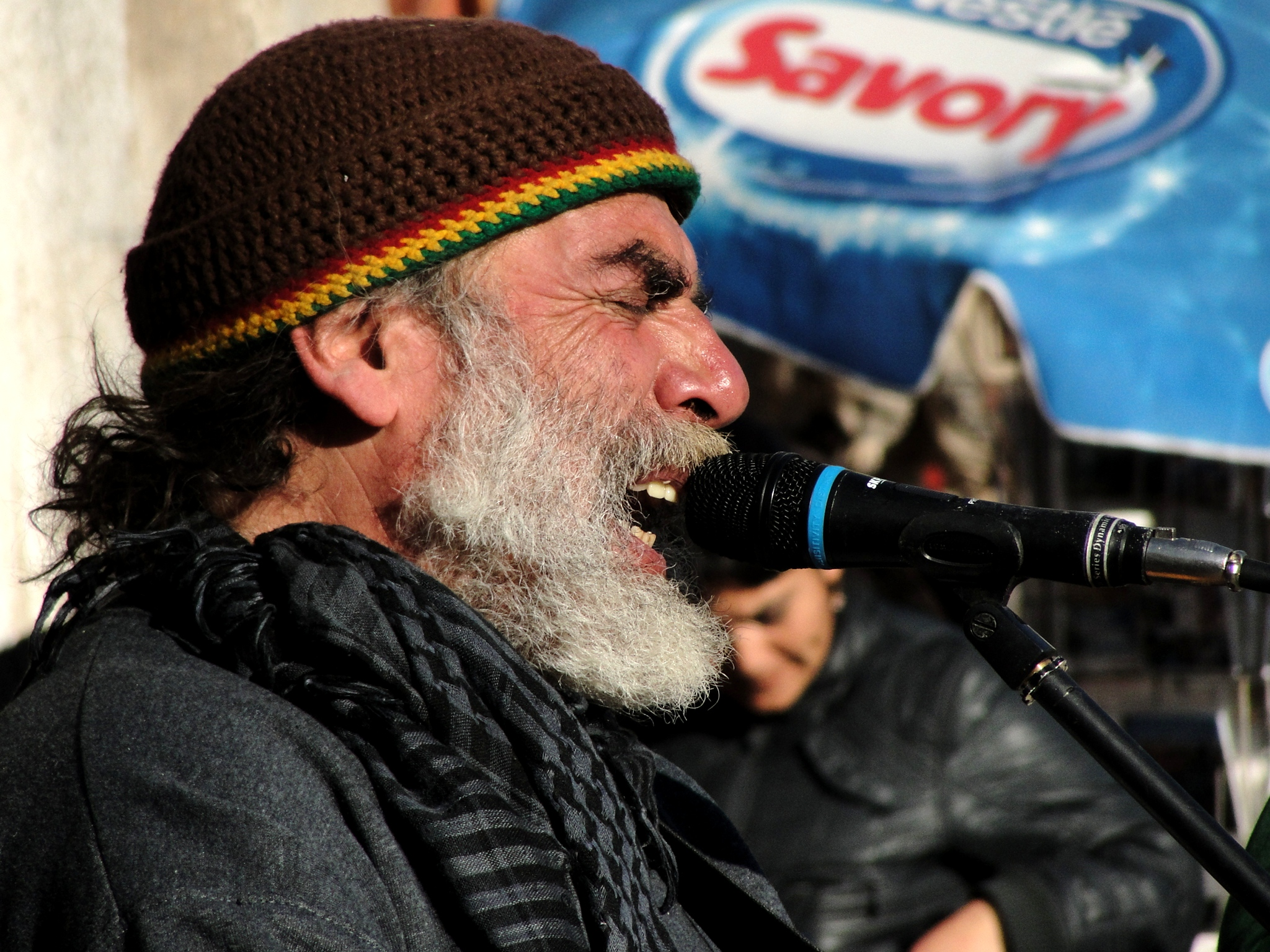 Charles Labra, Chilean musician; former member of Sol y Lluvia which he founded with his brother Amaro Labra; left the band in 2000 and founded Antu kai Mawen.